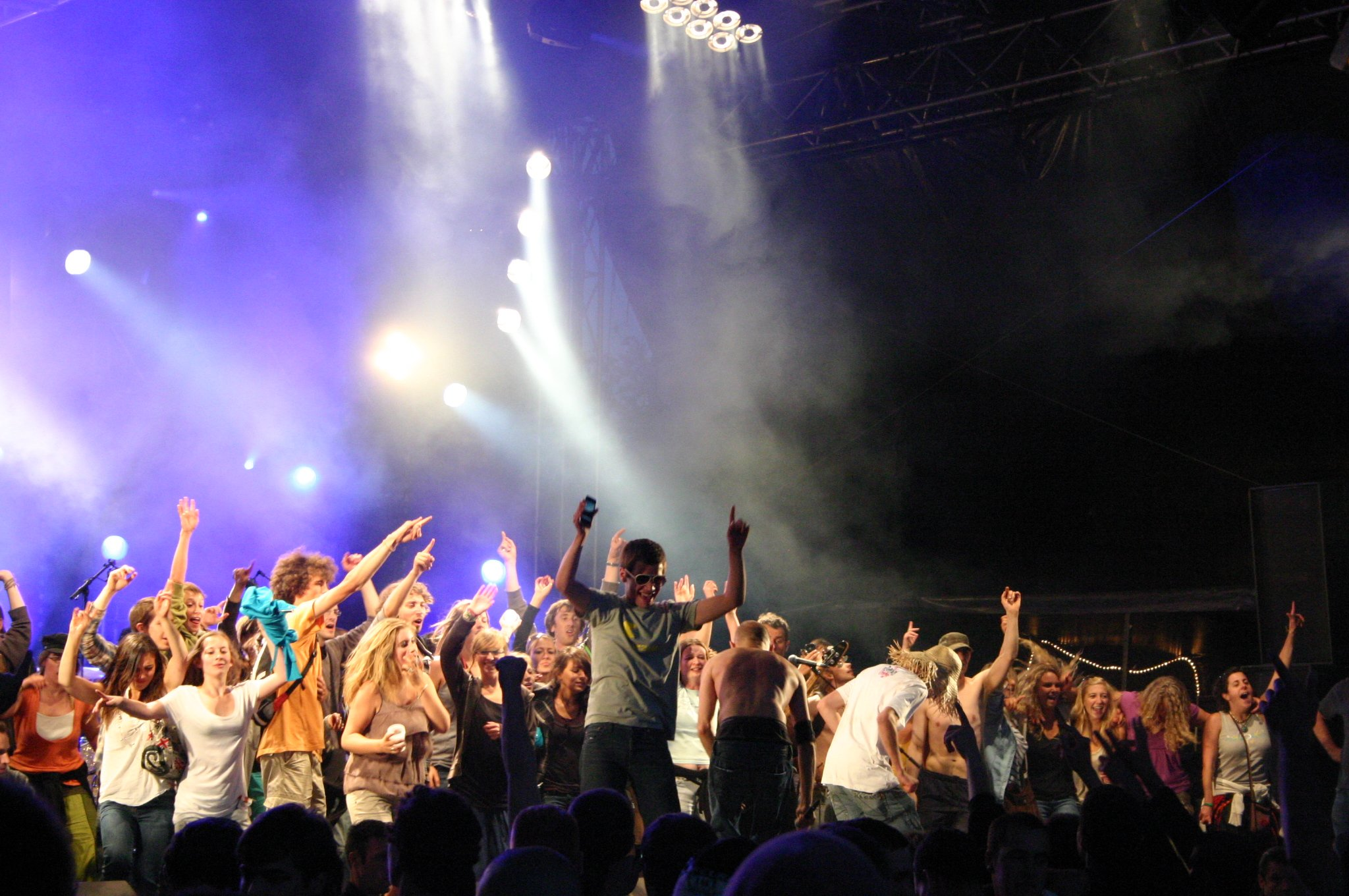 No One Is Innocent, festival Bobital (Brittany)